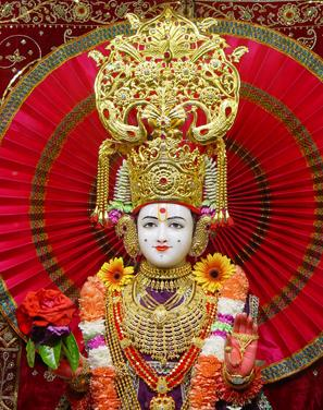 Image of Ghanshyam Maharaj at the Swaminarayan Temple, Willesden.